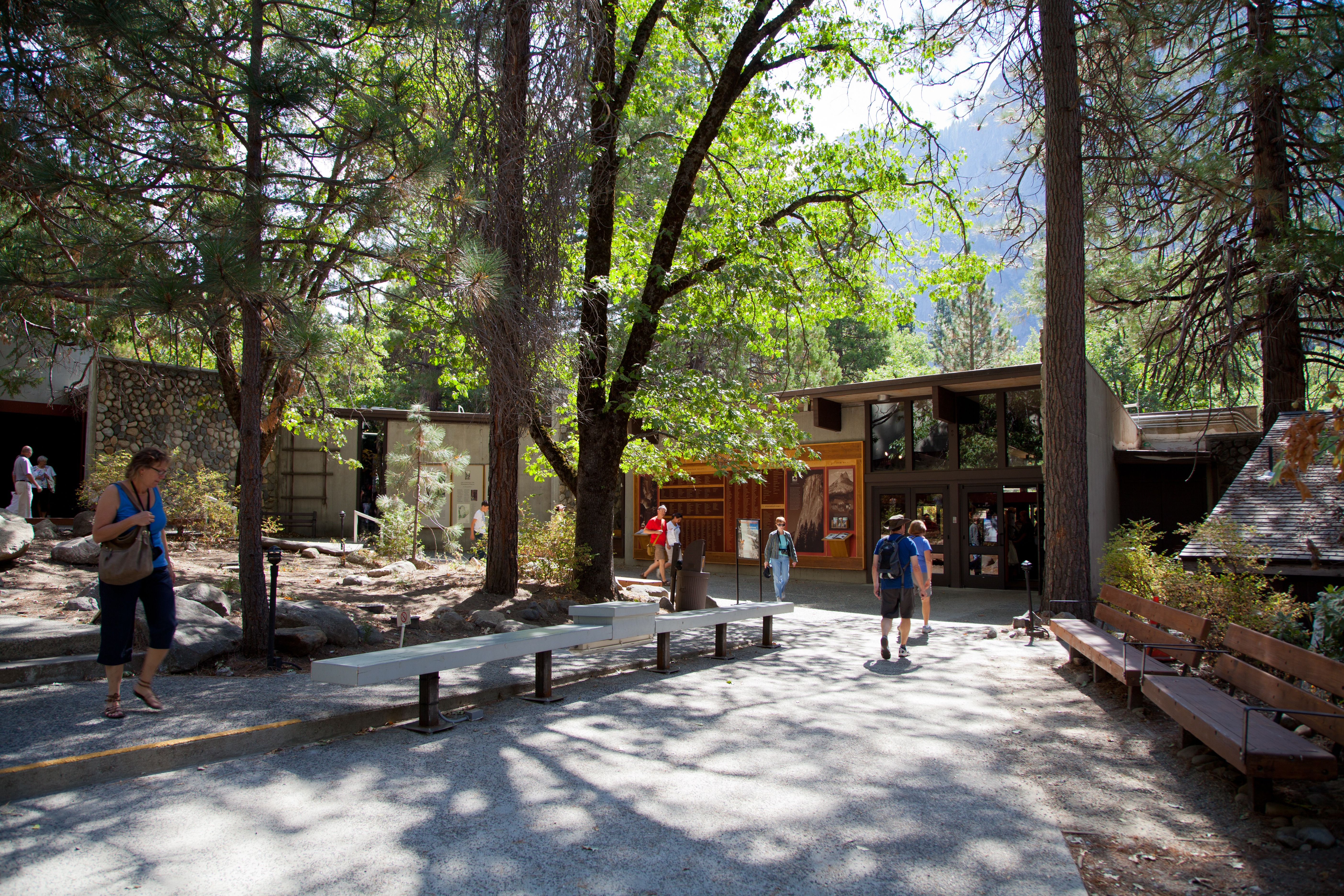 National Park Service visitor center in the Yosemite Village Historic District, Yosemite Valley. A Mission 66 project on the National Register of Historic Places in Yosemite National Park, California.